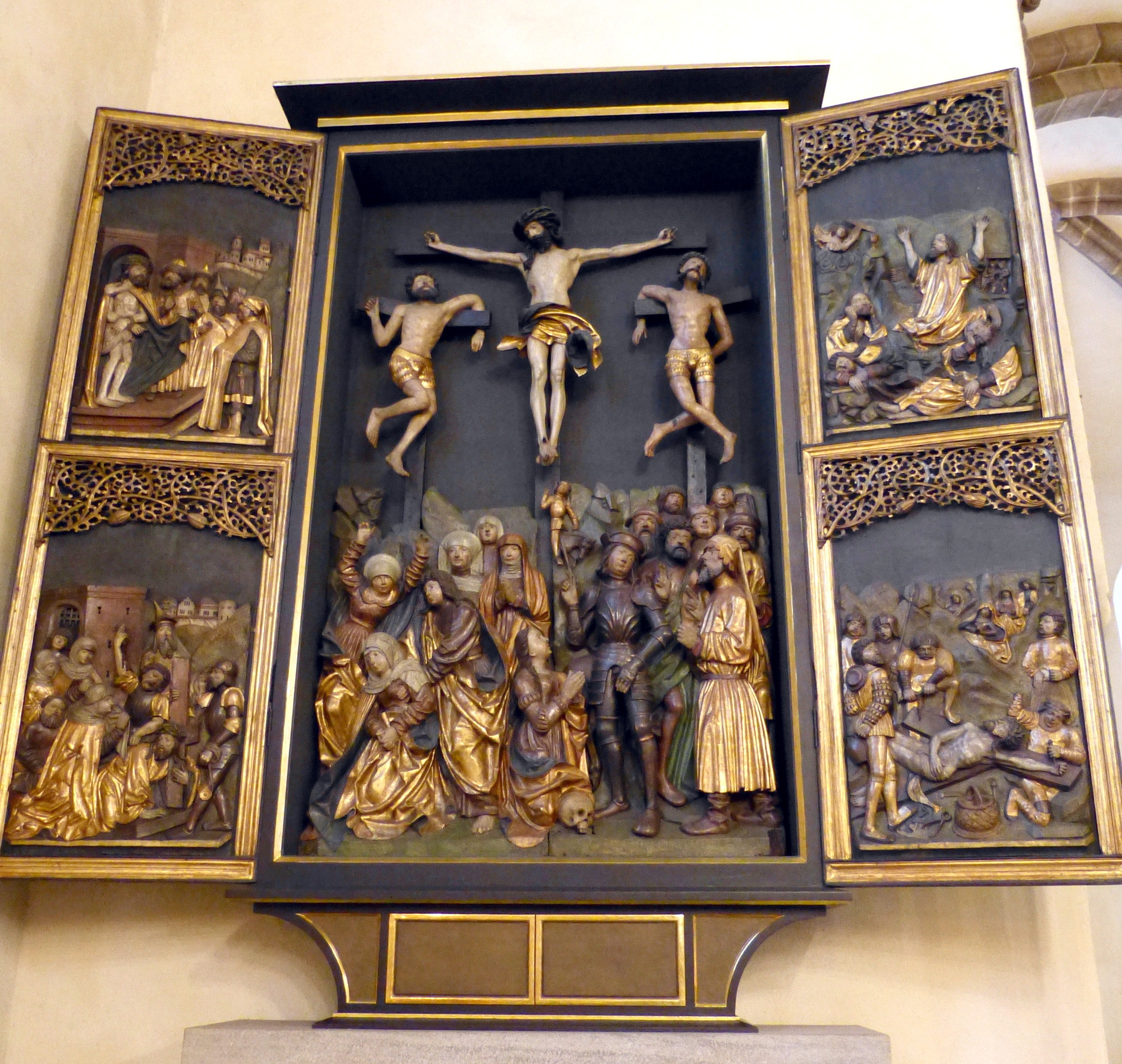 Nuremberg ( Middle Franconia ). Saint Claire church : Altar of the passion of Jesus Christ ( 1517 ).